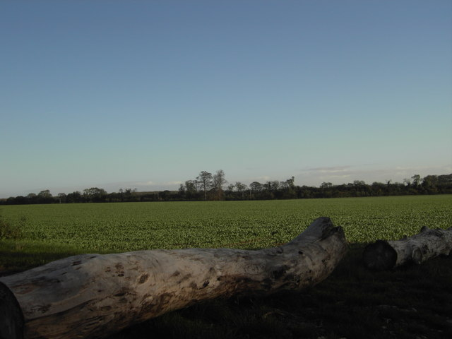 The Woodhouse Moor Rein View towards The Rein which forms part of the Aberford Dyke system. The Aberford Dykes have been identified as defences of the British kingdom of Elmet against the Anglo-Saxons in the late sixth and early seventh centuries, or as boundaries to defend the Anglo-Saxon kingdom of Deira against the Mercians in the seventh century AD.